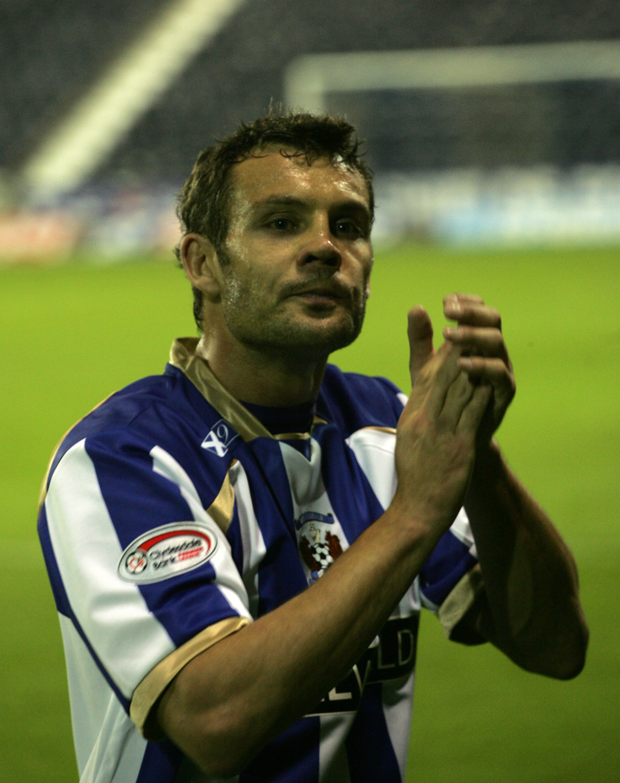 Kilmarnock F.C. player David Fernandez, Kilmarnock vs Morton - CIS Cup 2nd Round.